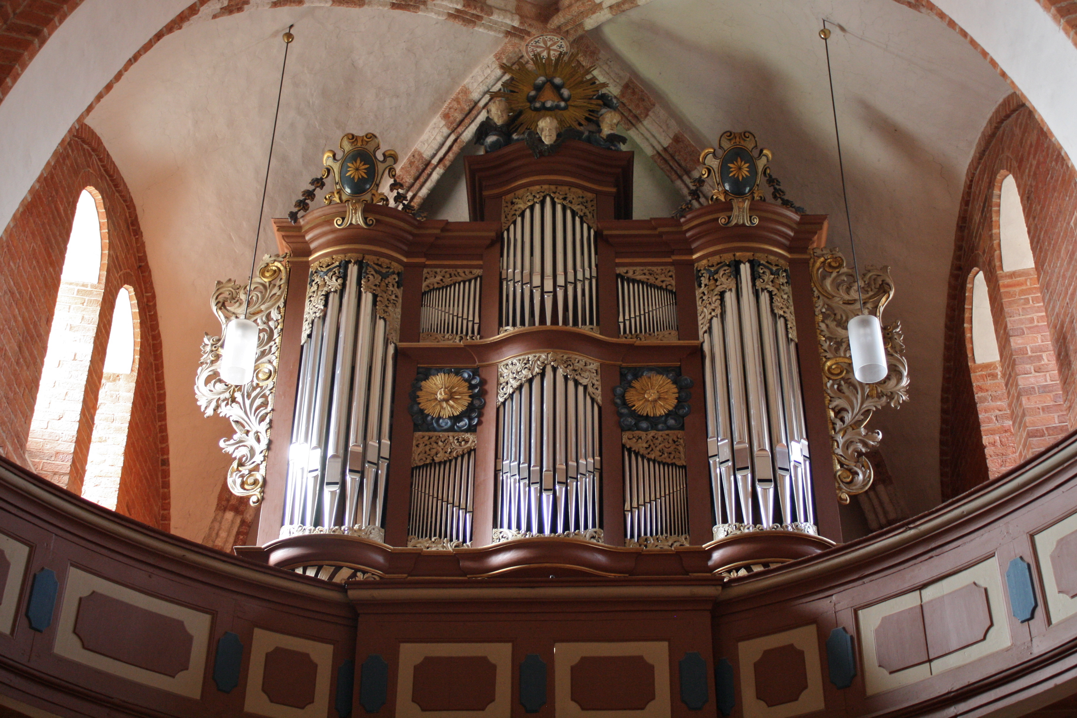 The 1740 Joachim Wagner organ of St. Mary's Church, Treuenbrietzen (Germany)